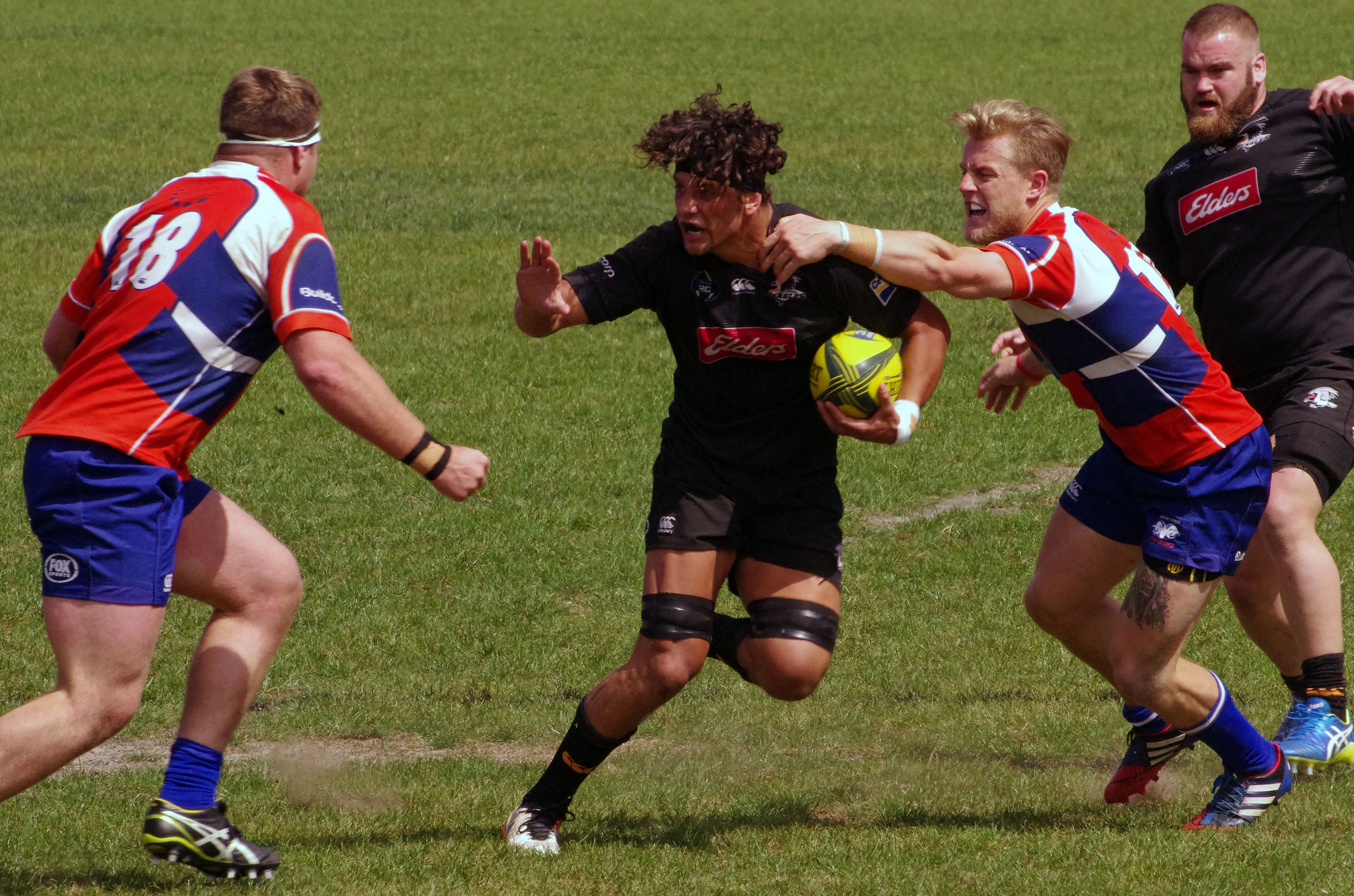 Rugby player Sam Figg runs with the ball for the NSW Country Eagles against the Western Sydney Rams in the 2016 National Rugby Championship in Sydney, Australia